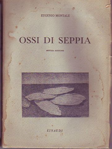 Cover of Eugenio Montale, Ossi di seppia, Torino, Einaudi, 19437